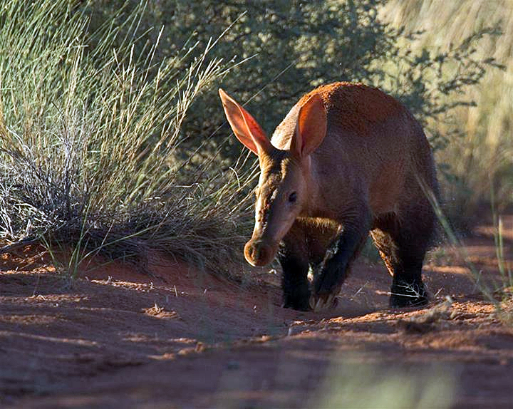 Aardvark at SanWild, Lowveld, South Africa